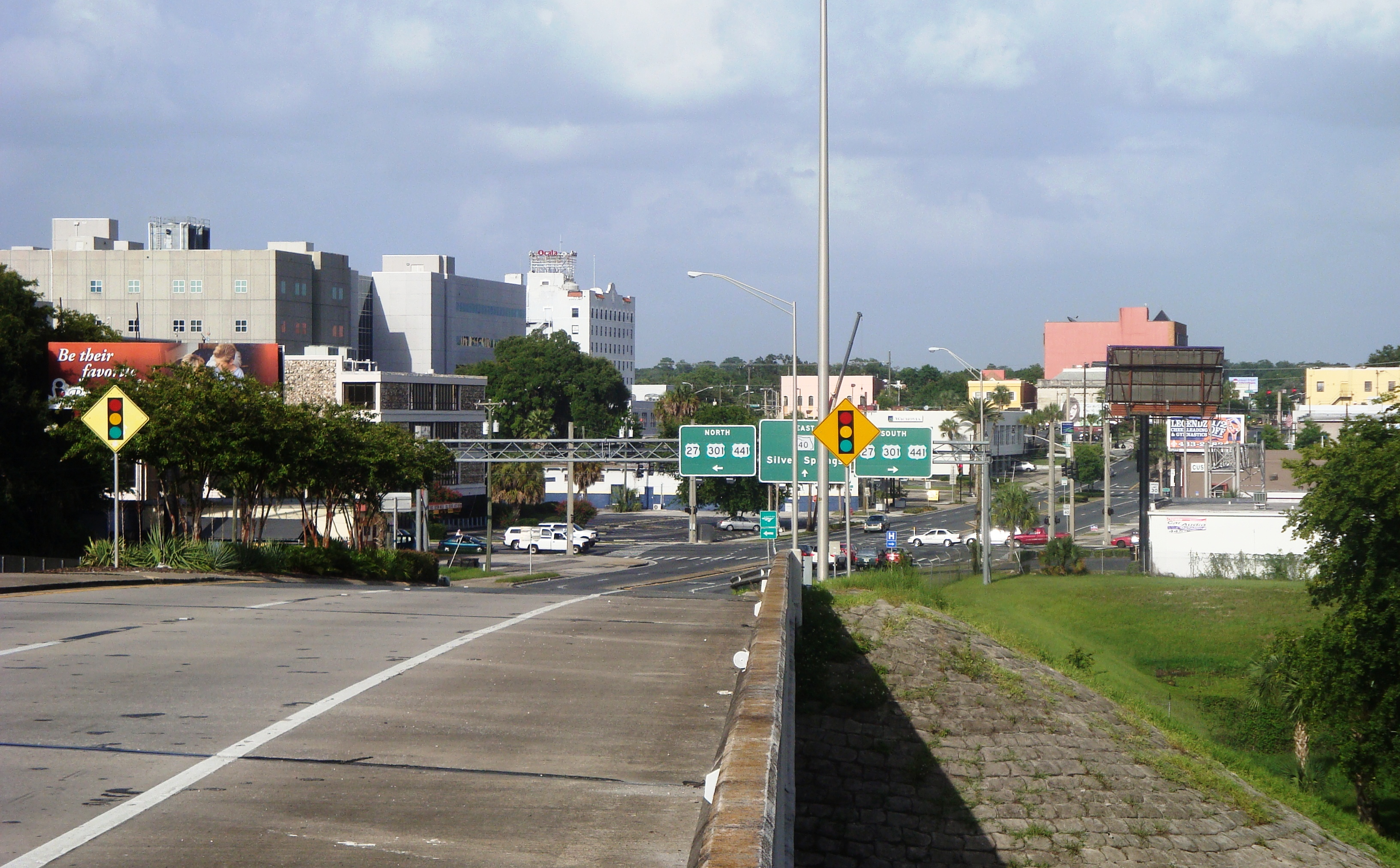 Downtown Ocala, FL as seen from SR 40